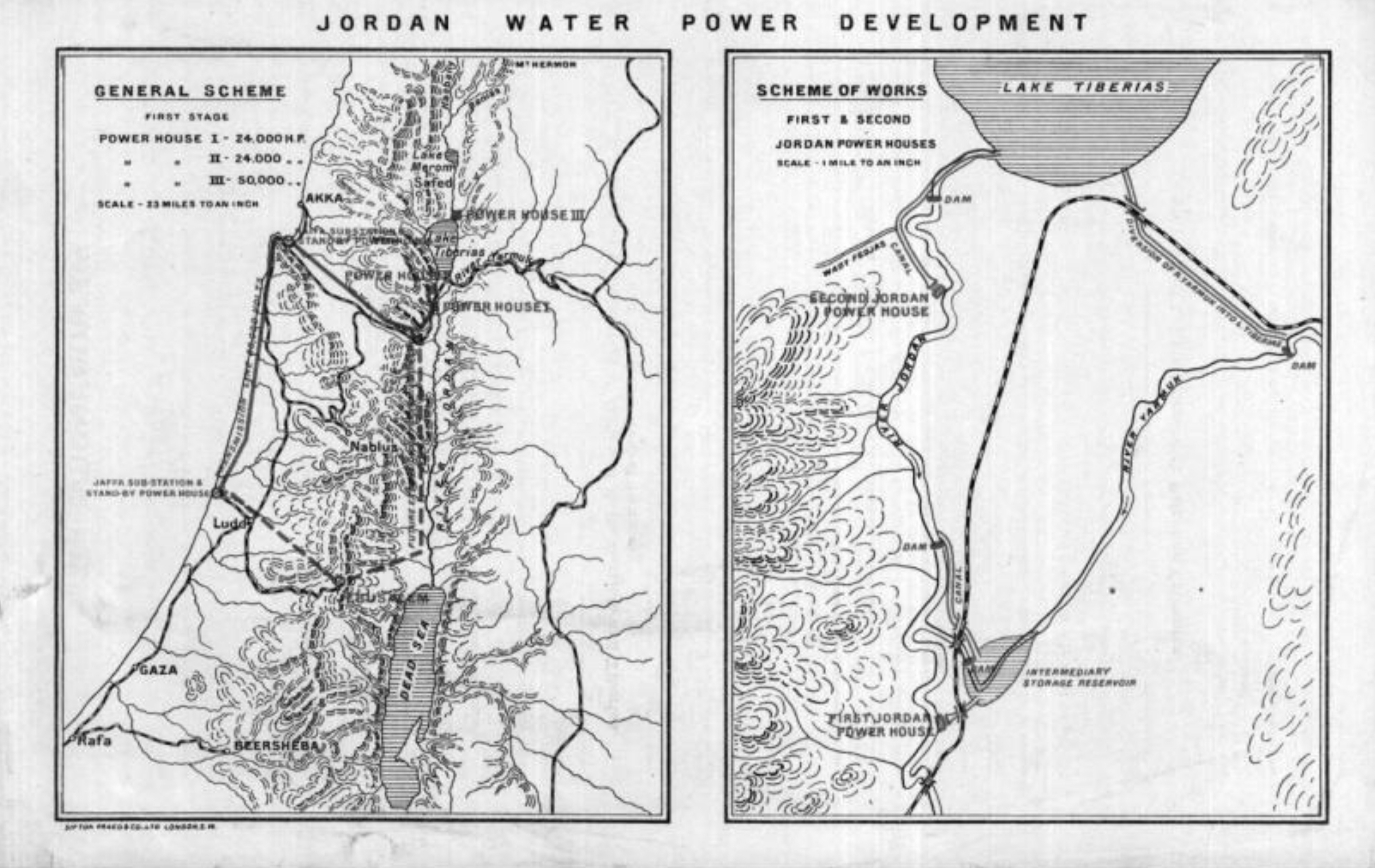 Jordan Water Power Development plans by Rutenberg, from the Palestine Electric Company archives